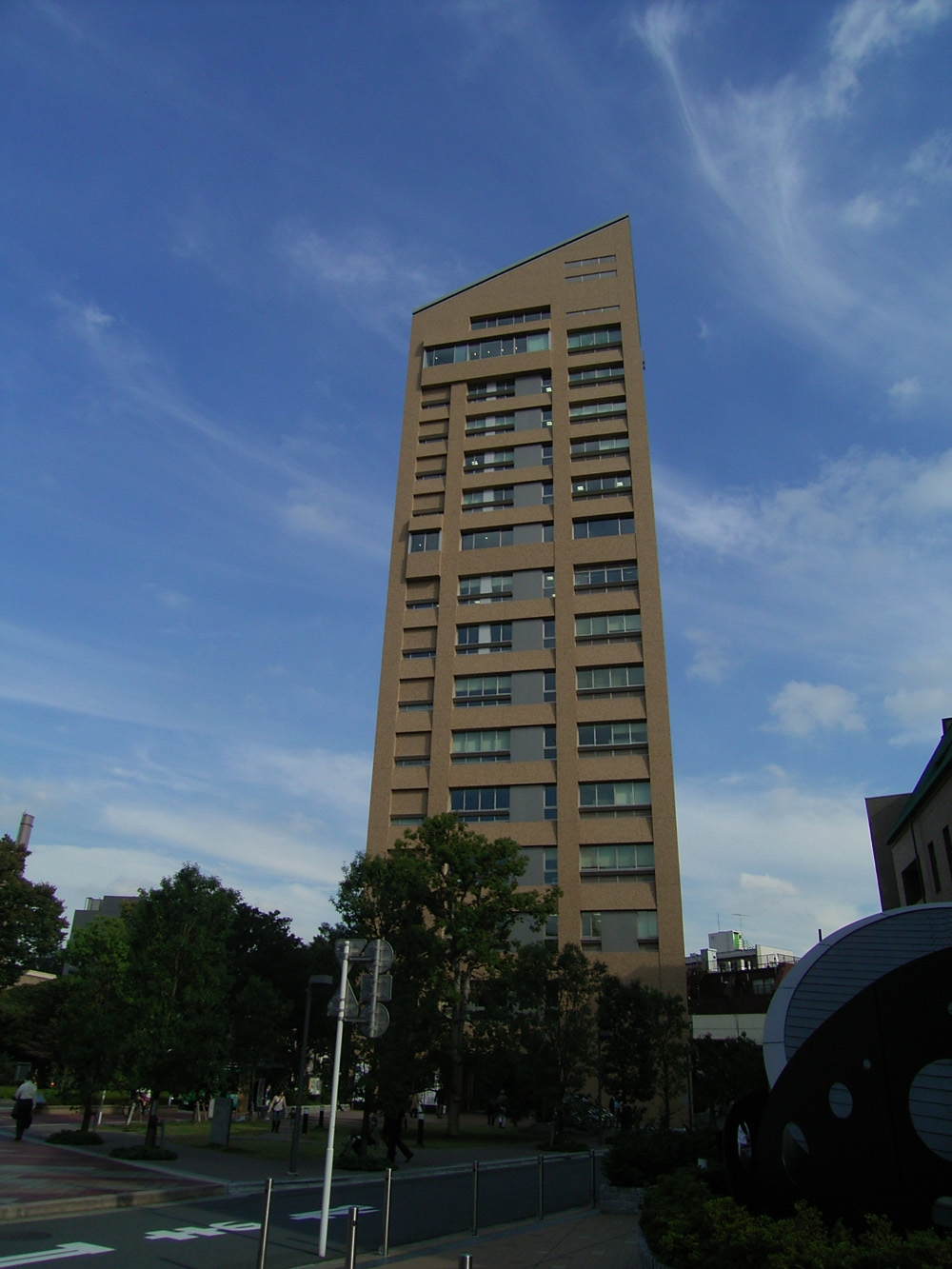 “Okuma memorial tower” Waseda University “Okuma memorial tower” Waseda University address = 1-6-1, Nishiwaseda, Shinjuku-ku, Tokyo